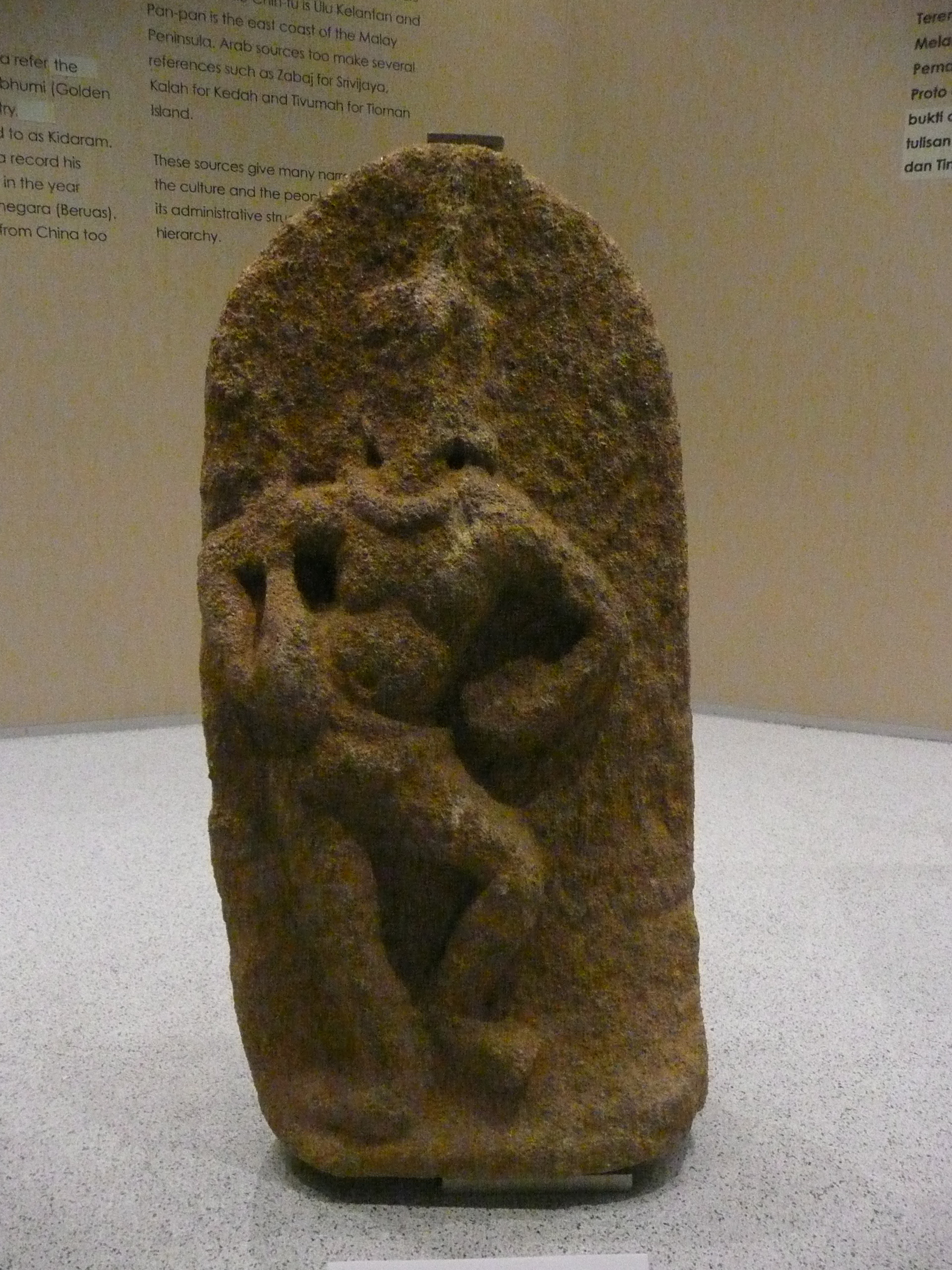 Figure of a dancer carved in high relief found at Batu Lintang, south of Kedah in 1957 by Dr. M. Sullivan and Dr. H.A. Lamb.